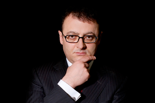 Aleksan Harutyunyan portrait. From PAN Photo Archive